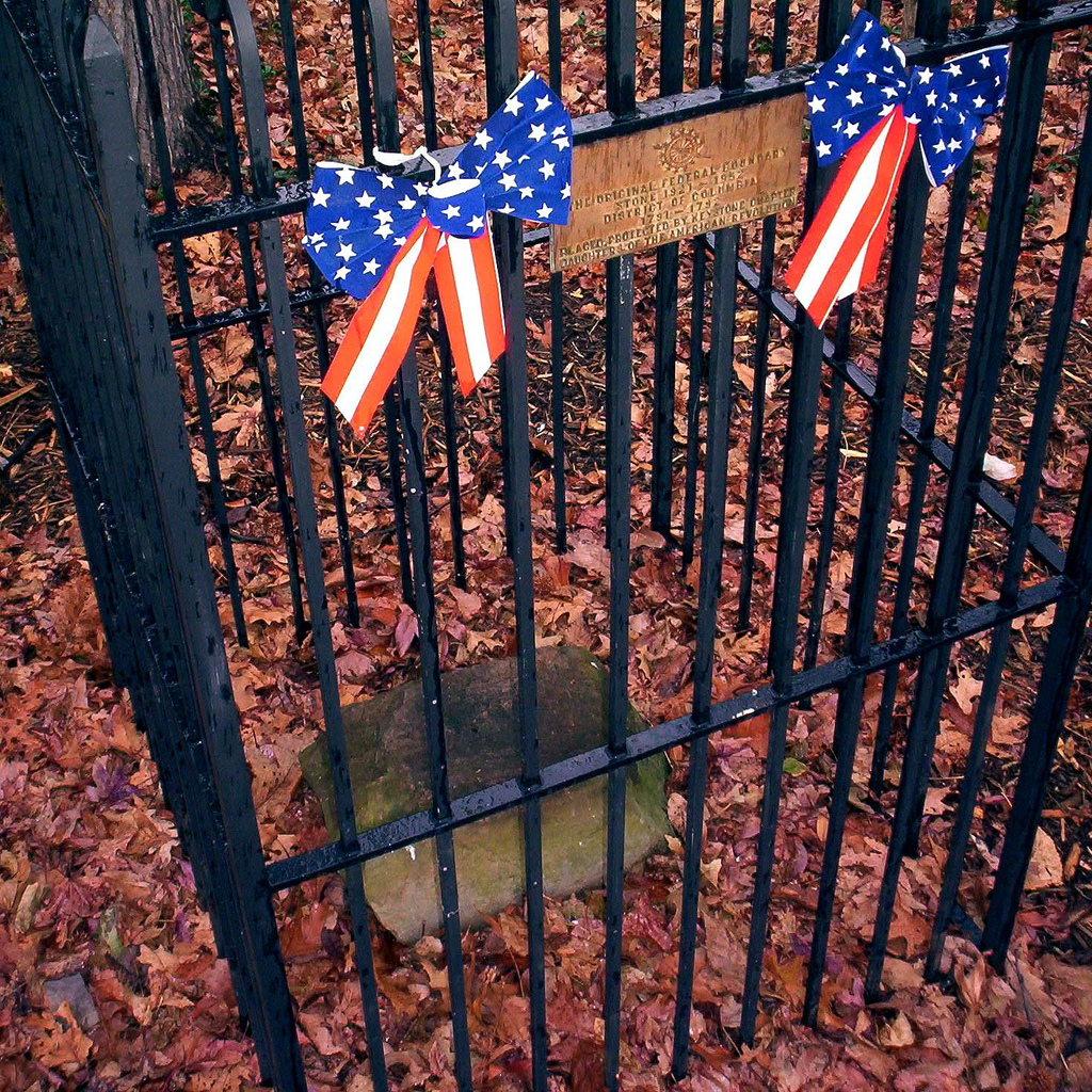 Boundary stone of the District of Columbia SW 5 - that is it is located 5 miles northwest of the southernmost DC boundary stone.